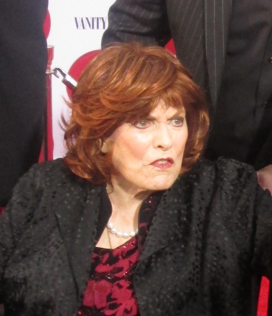 O'Hara at the 2014 TCM Film Festival